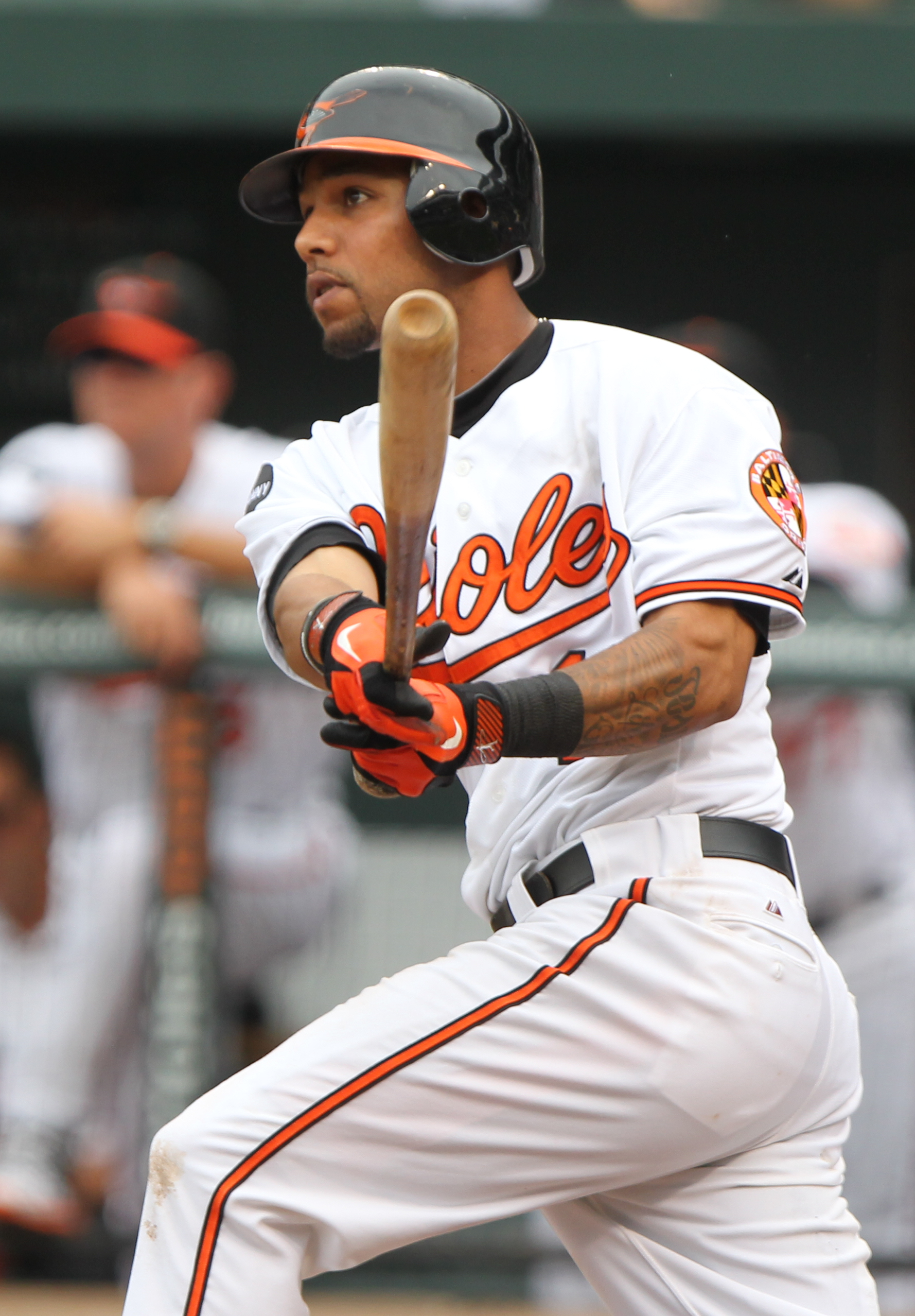 Blue Jays at Orioles September 1, 2011